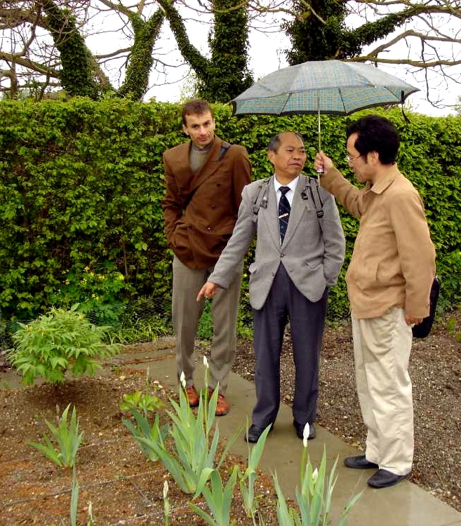 Hong De-Yuan, P. Cikovac May 7th 2005 Munich Botanical Gardens